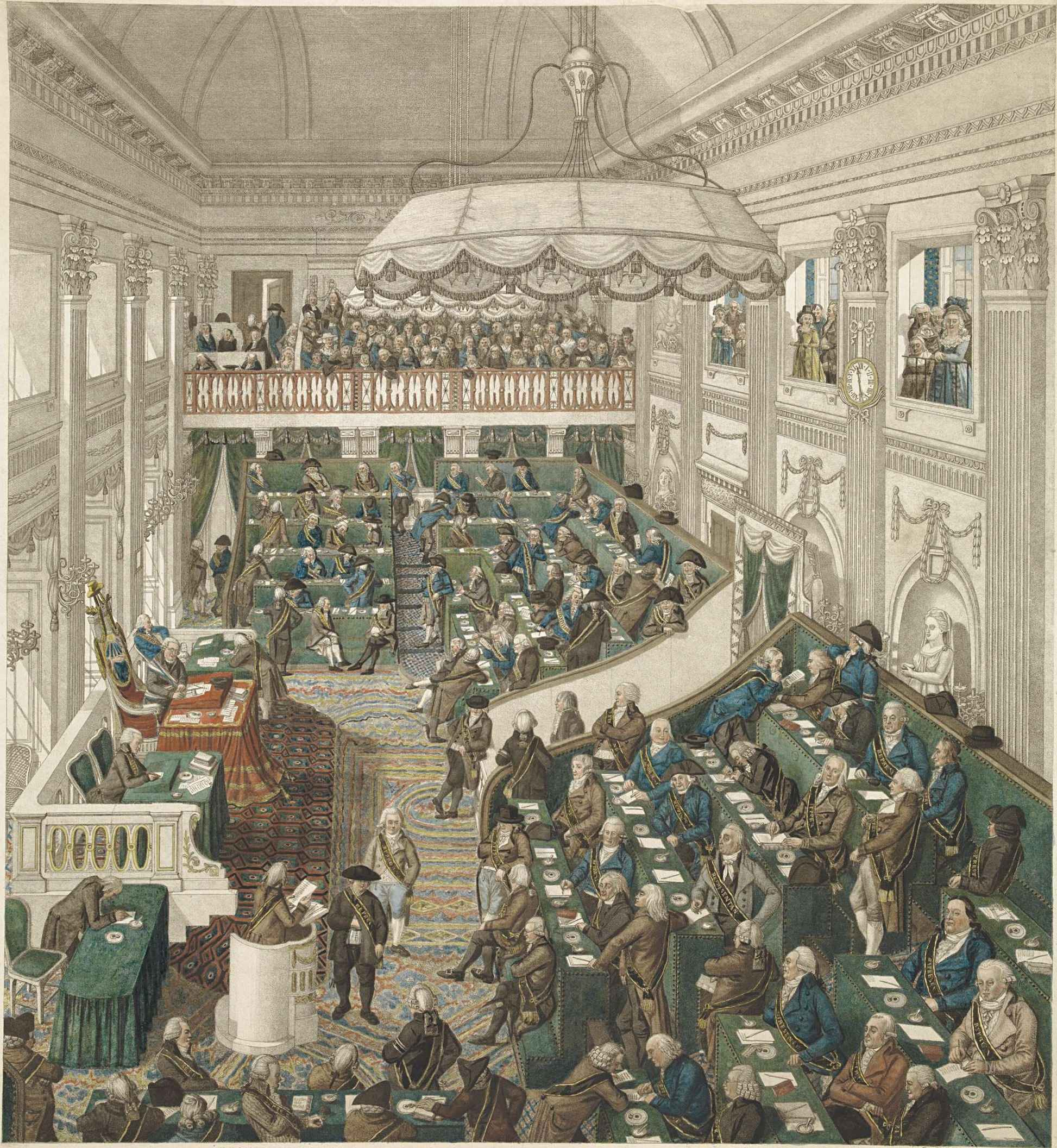 First session of the National Assembly in The Hague, Batavian Republic (of The Netherlands), from March 1, 1796 to August 31, 1797. View of the assembly hall (former ballroom of the Stadtholder's Palace) with its members, all with the ribbon of representative. Left the chairman (speaker) Peter Paul, at the front left a speaker at the lectern. In the background the full public gallery.